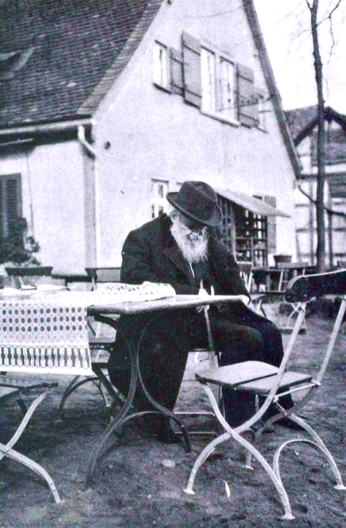 Aleksey Suvorin